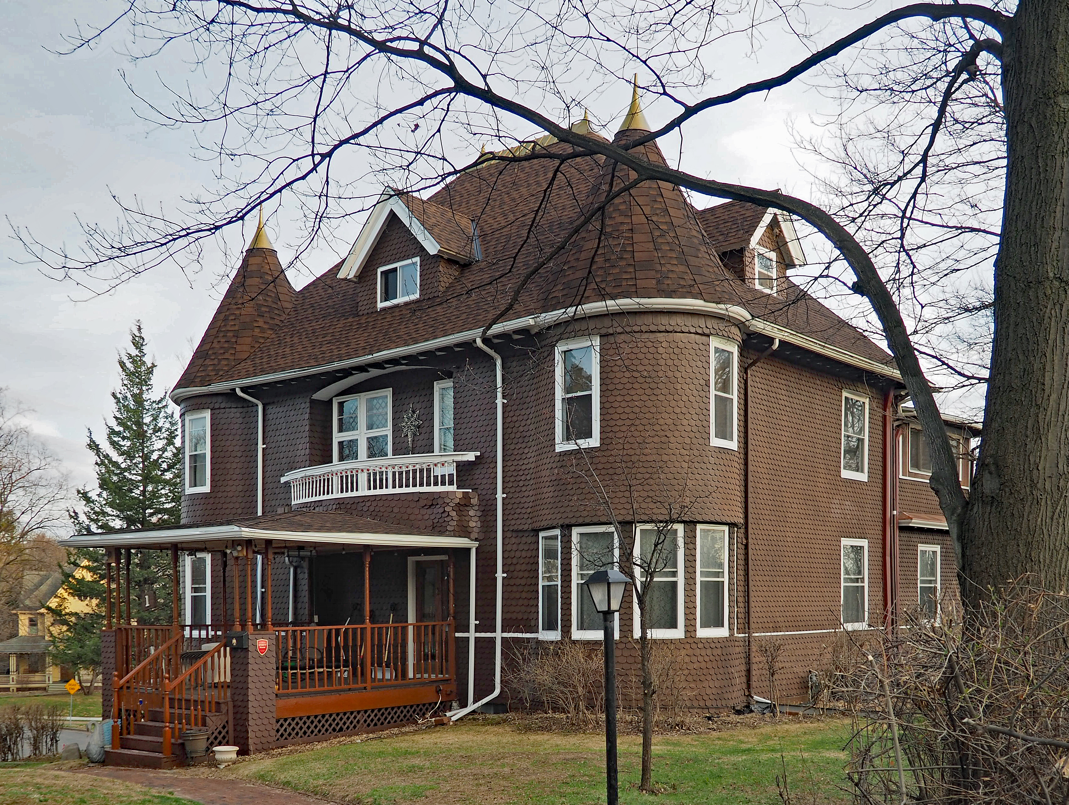 Harry W. Jones House, 5101 Nicollet Ave, Minneapolis, Minnesota, USA. Viewed from the northwest.